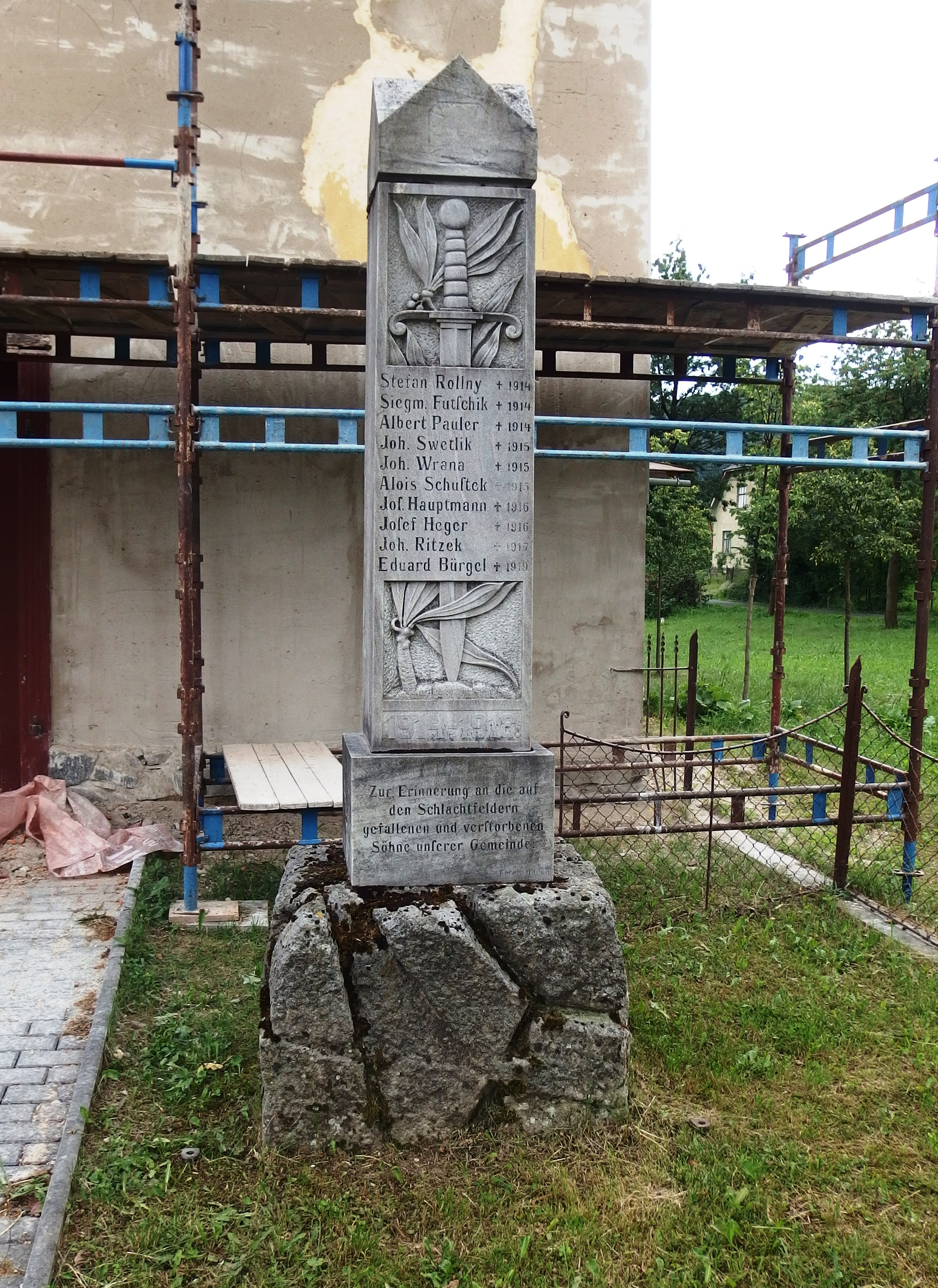 Odry, Nový Jičín District, Czech Republic, part Klokočůvek.